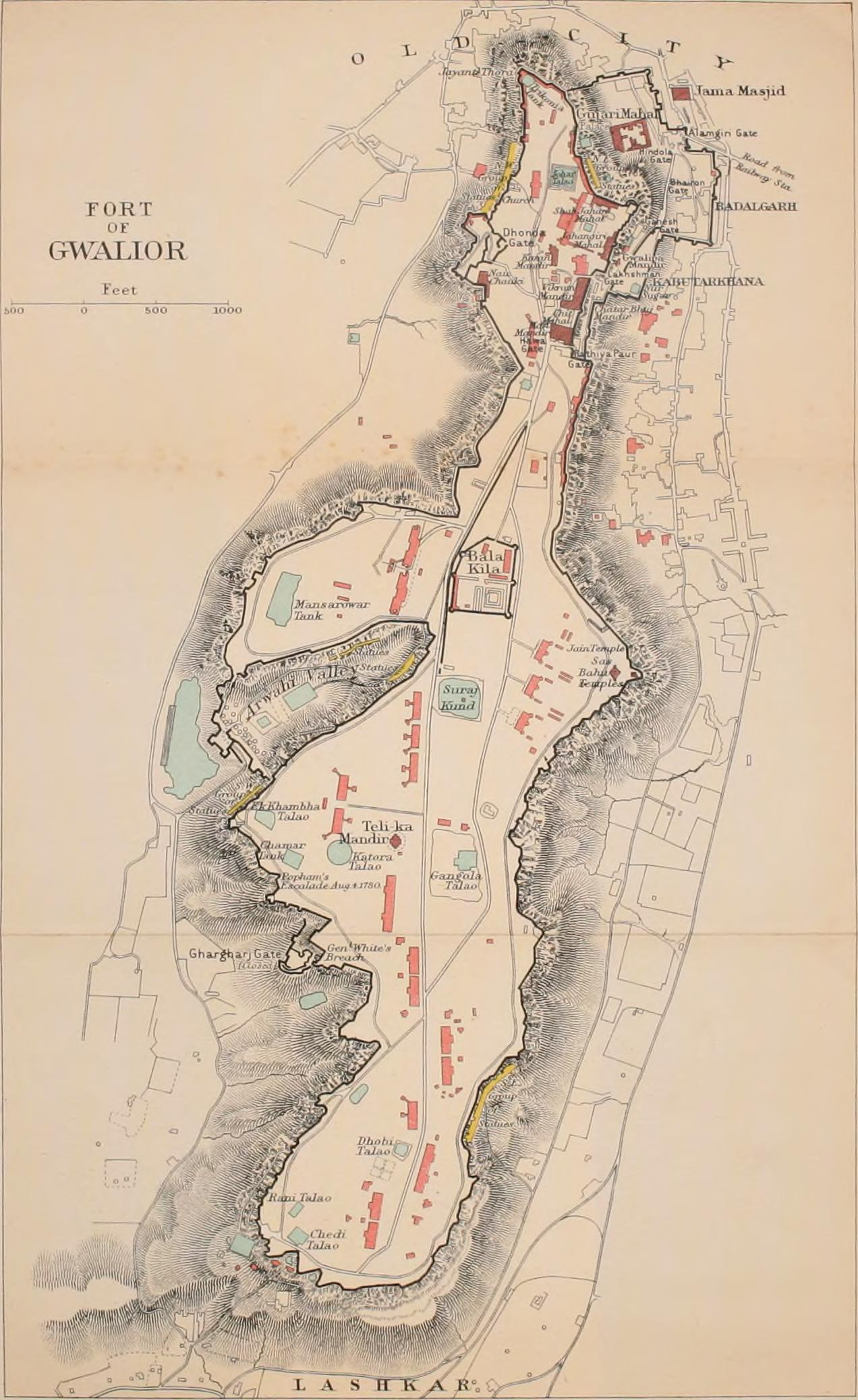 Identifier: handbooktravelle00john Title: A handbook for travellers in India, Burma, and Ceylon . Year: 1911 (1910s) Authors: John Murray (Firm) Subjects: India -- Guidebooks Burma -- Guidebooks Sri Lanka -- Guidebooks Publisher: London : J. Murray Calcutta : Thacker, Spink, & Co. Text Appearing Before Image: ' Text Appearing After Image: Loudo.i .Miri Miut;.v, :VU.cm-u-l. Srr. ROUTE 9. GWALIOR FORT 109 stone, and was once a very finebuilding. The Bhairon or Bansur gatewas the work of one of the earliestKachhwaha Rajas. It was calledBansur, from batisur archer, lit.a bamboo-splitter, from the guardwhich had the charge of it. It hasnow been removed. The Ganesh Gate was built byDungar Singh, who reigned 1424to 1454. Outside is a small outworkcalled Kabutar Khana, or pigeon-house, in which is a tank calledNur Saugar, 60 ft x 39 ft. and 25 ft.deep. Here, too, is a Hindu templesacred to the hermit Gwalipa, fromwhom the fort had its name. It isa small square open pavilion, with acupola on four pillars. There is alsoa small mosque with a chronogramgiving a date corresponding to1664 A.D. Before reaching the LakhskmanGate is a temple hewn out of thesolid rock and called Chatar-bhuj-mandir, shrine of the four-armed,sacred to Vishnu, inside which, onthe left, is a long inscription, datedSamwat 933 = 876 A.D. It is 12 ft.sq., with